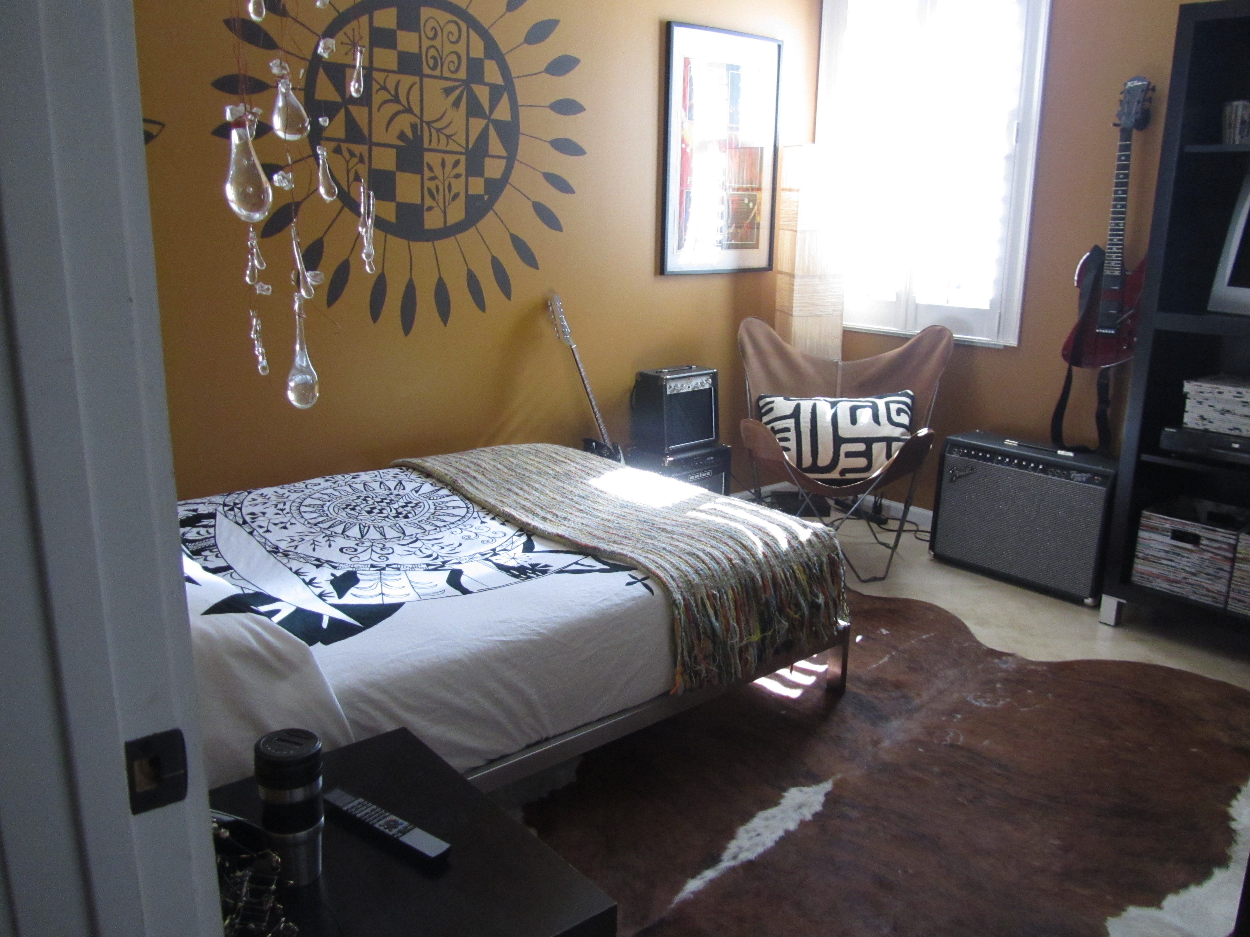 UO Sweepstakes, Rocker Room